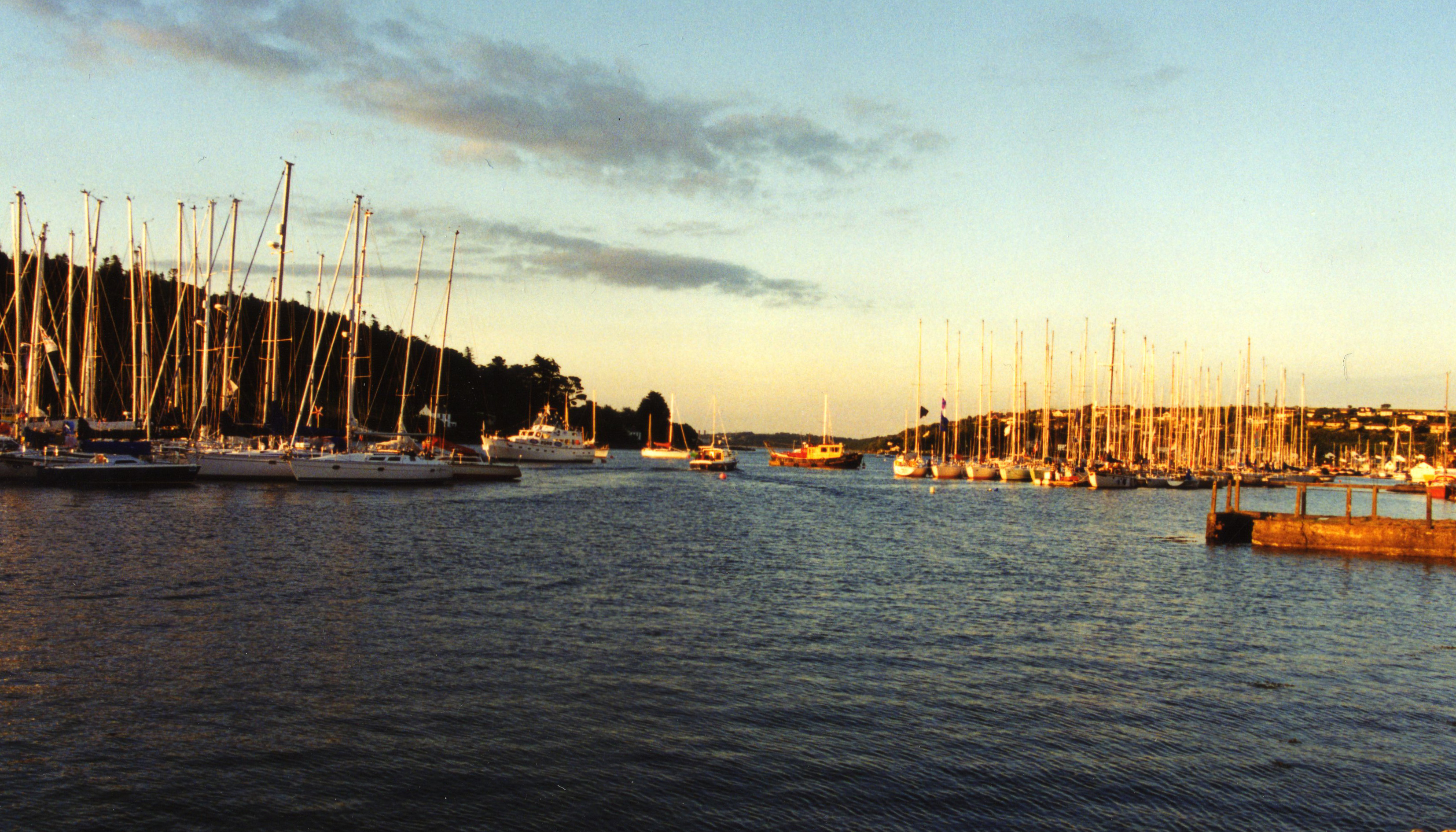 Nr Kinsale Co Cork, Ireland. Little out of focus but I love the light.Crosshaven Regatta